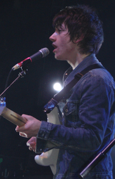 Newcastle 2006